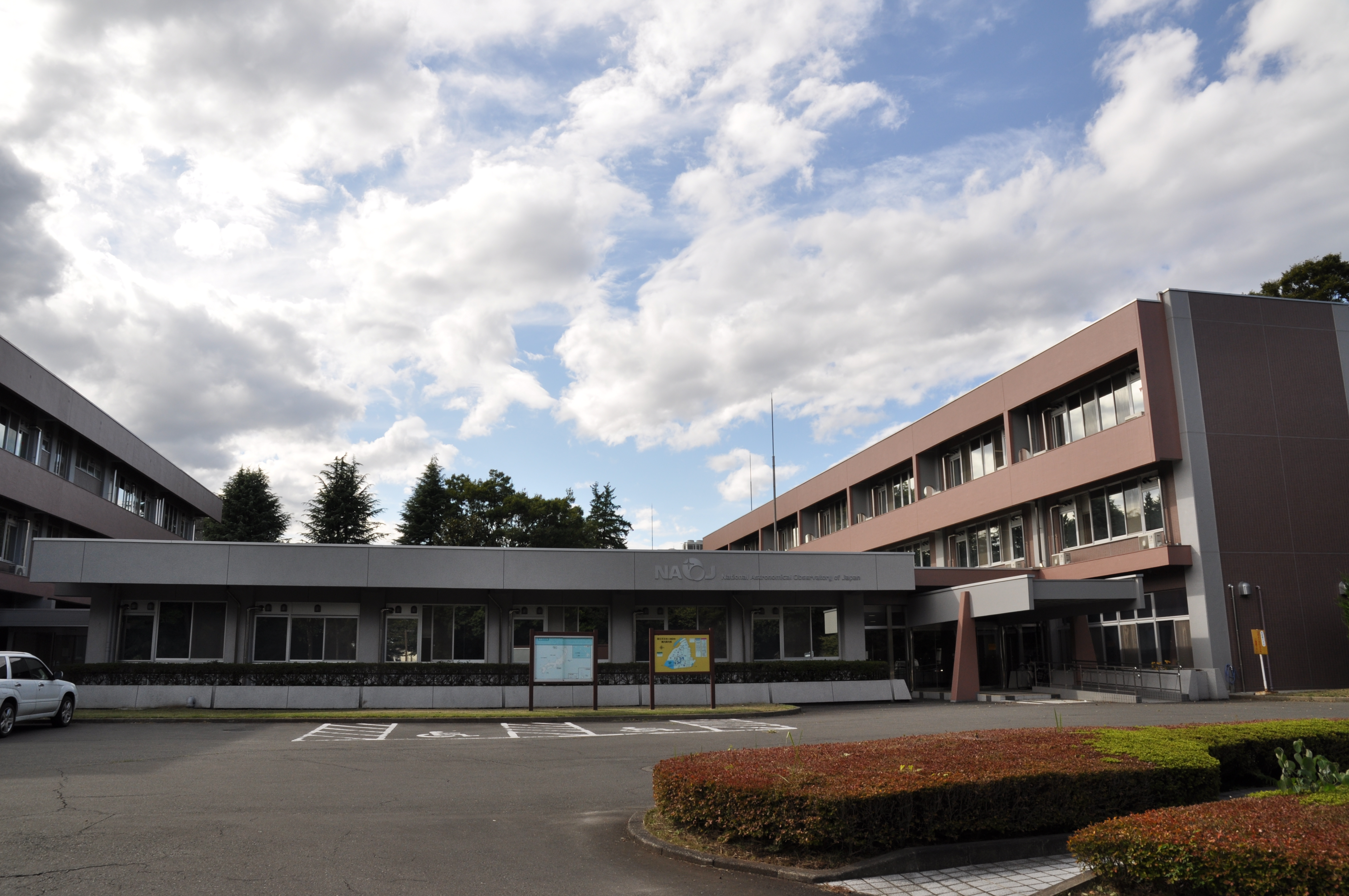 National Astronomical Observatory of Japan.